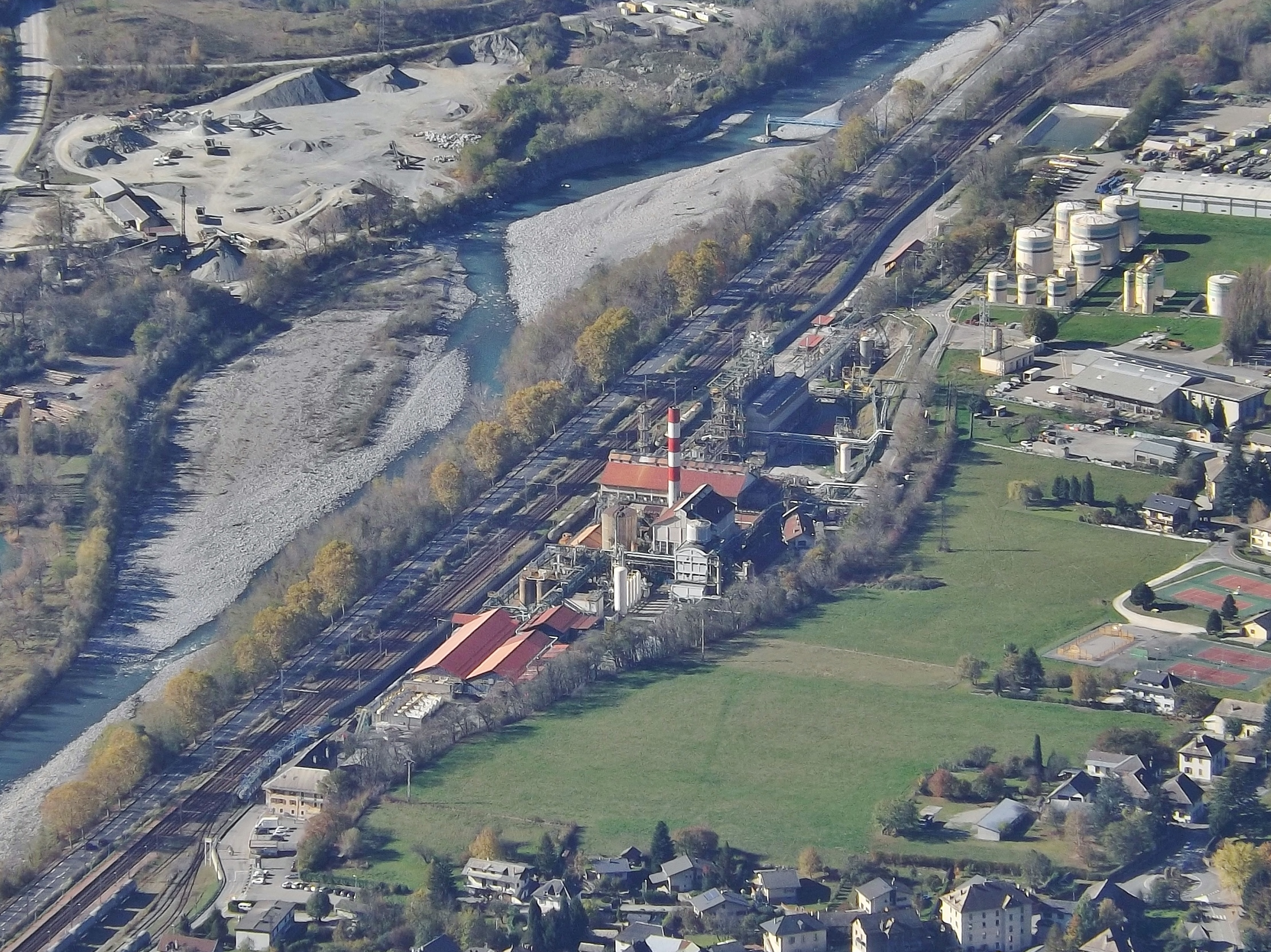 Aerian sight, from the heights of Montpascal, on the Arkema production unit of La Chambre, in the Maurienne valley, in Savoie, France.